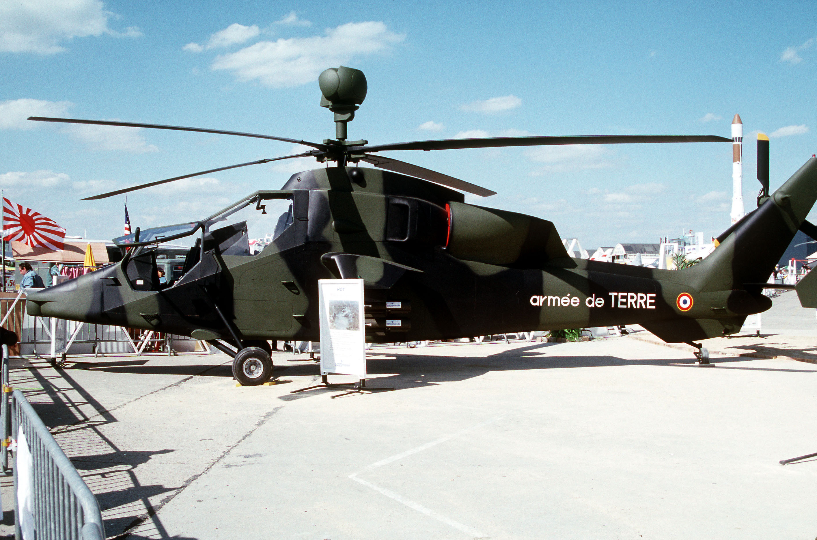 A French army Eurocopter Tiger anti-tank helicopter sits on display at the 1991 Paris Air Show.